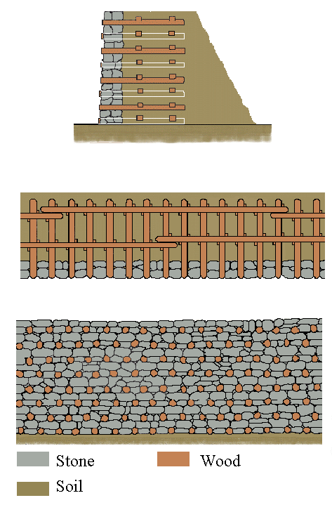 picture of the design of a wall, used on celtic fortress as discribed by Caesar in Bello Gallico